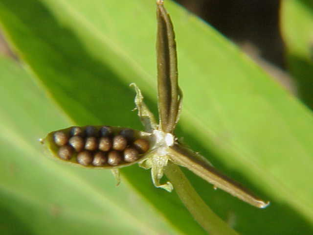 Species: Viola missouriensis Family: Violaceae Image No. 1